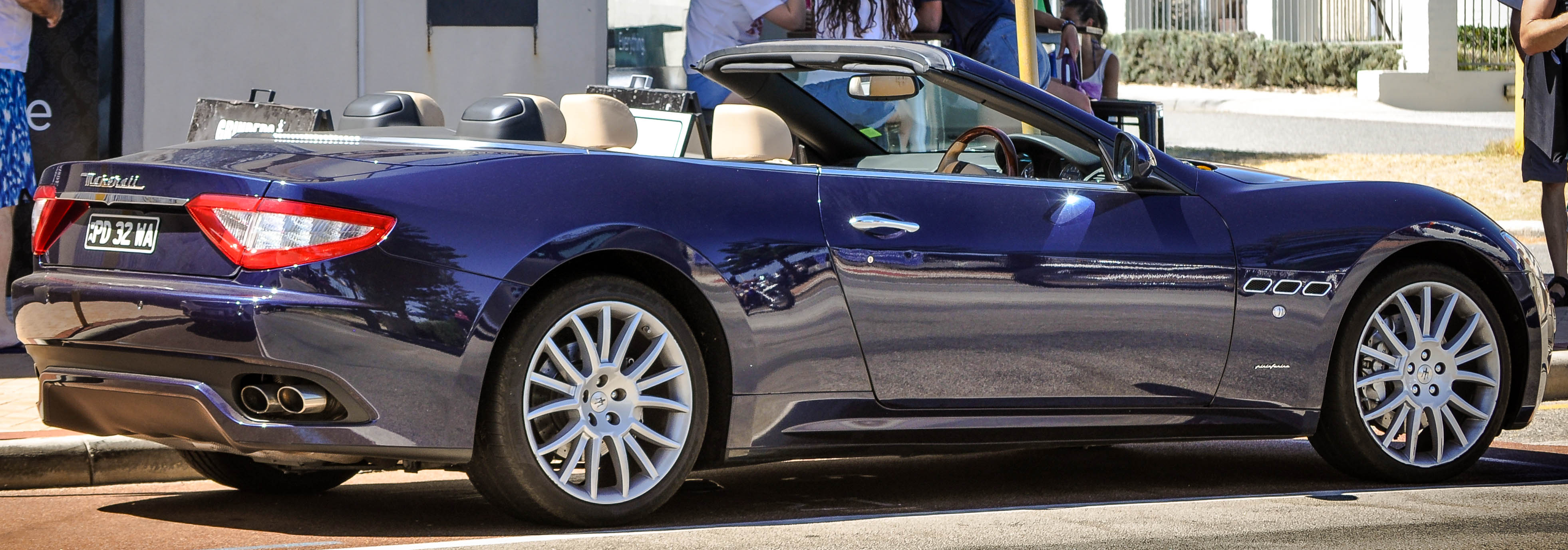 Car spotting: Maserati courtesy of J.Michael Bjorson via OZ Supercars.